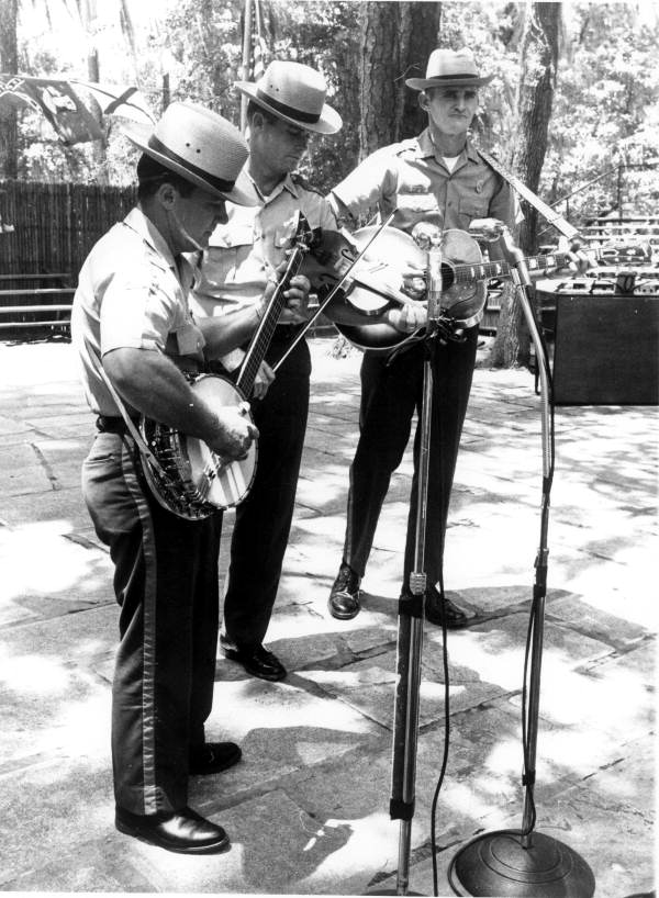 Local call number: fa3930 Title: [Dale Crider, right, and the Florida Wildlife Boys performing at the Florida Folk Festival : White Springs, Florida] Date: 196-. Physical descrip: 1 photoprint : b&w ; 6.5 x 8 in. Series Title: ( General note: Crider, from Alachua County, is now retired after 32 years with the Florida Game and Fresh Water Fish Commission, and has served the state as a waterfowl biologist, environmental protector and educational specialist. He sings about environmental themes. Repository: 500 S. Bronough St., Tallahassee, FL 32399-0250 USA. Contact: 850-245-6700. Persistent URL